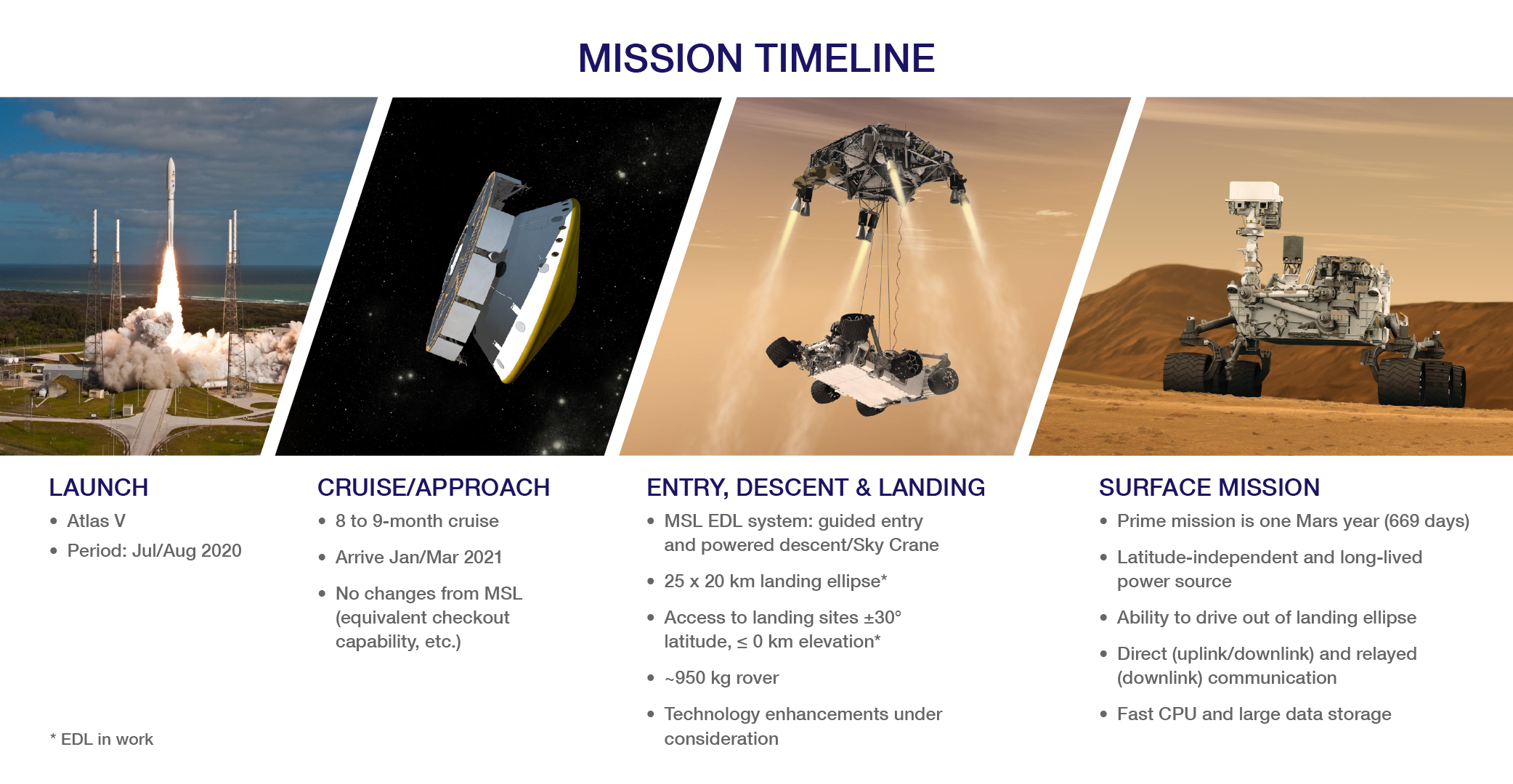 Mission Timeline This mission is being designed to launch in 2020 and to enable surface operations lasting one Mars year (about 687 Earth days). The phases of the mission would include: Prelaunch Activities: Preparation for the mission, including pre-project planning, science definition, landing site selection, assembly and testing, and delivery to Cape Canaveral Launch: Lift-off from Earth Cruise: Voyage through space Approach: Nearing the red planet Mars Entry, Descent, and Landing: Journey through the martian atmosphere to the surface Instrument Checks and First Drive: After landing when engineers first conduct tests to ensure the rover is in a "safe state" Surface Operations: Learning about Mars through the day-to-day activities of the rover